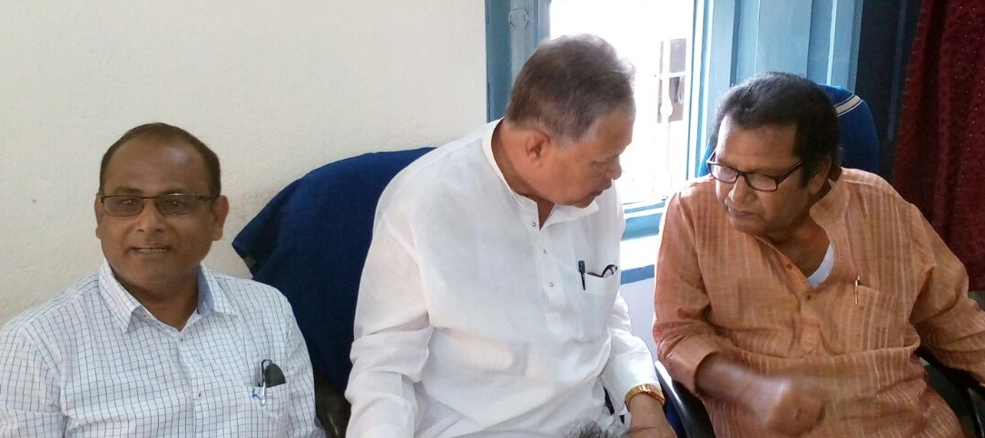 Pranab Basu with MLA Mrigen Maiti(L) & Vice Cahairman Jitendra Nath Das(R)